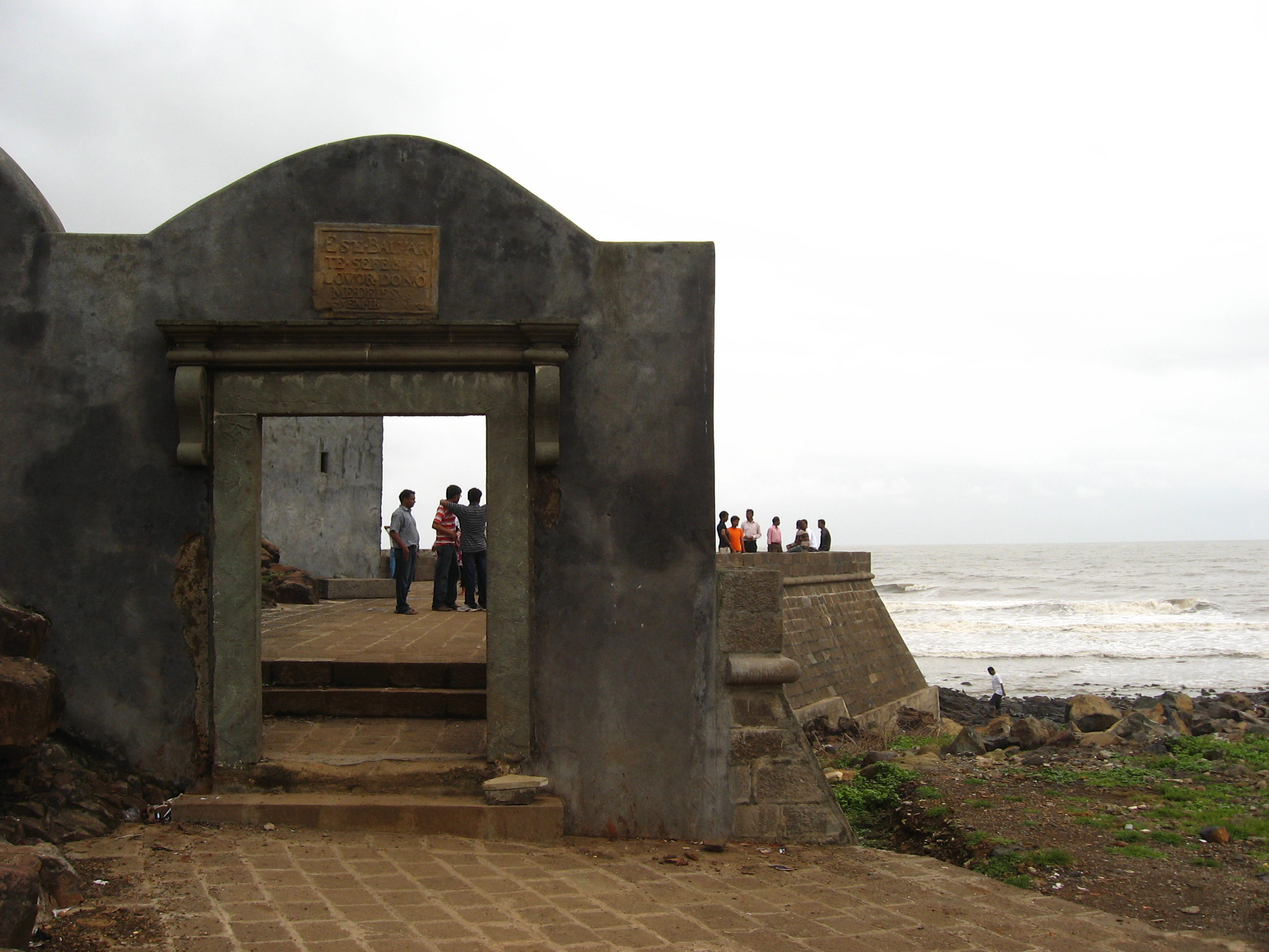 Castella de Aguada a Portuguese fort in Bandra, Mumbai, now in ruins. The fort overlooks the Mahim Bay